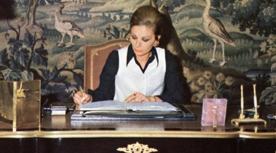 English